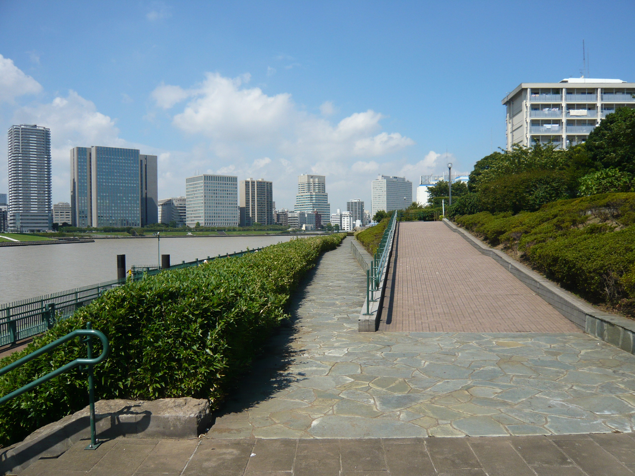 Ettyūjima Park (越中島公園) in Kōtō-ku, Tokyo, Japan.